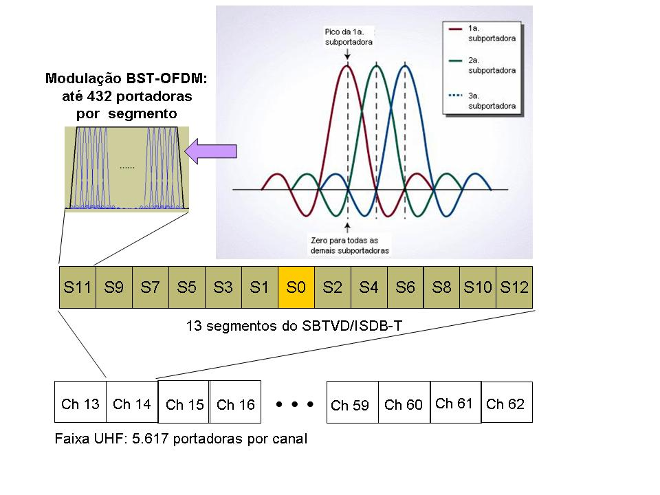 BST-OFDM modulation diagram for SBTVD/ISDB-T digital TV standards